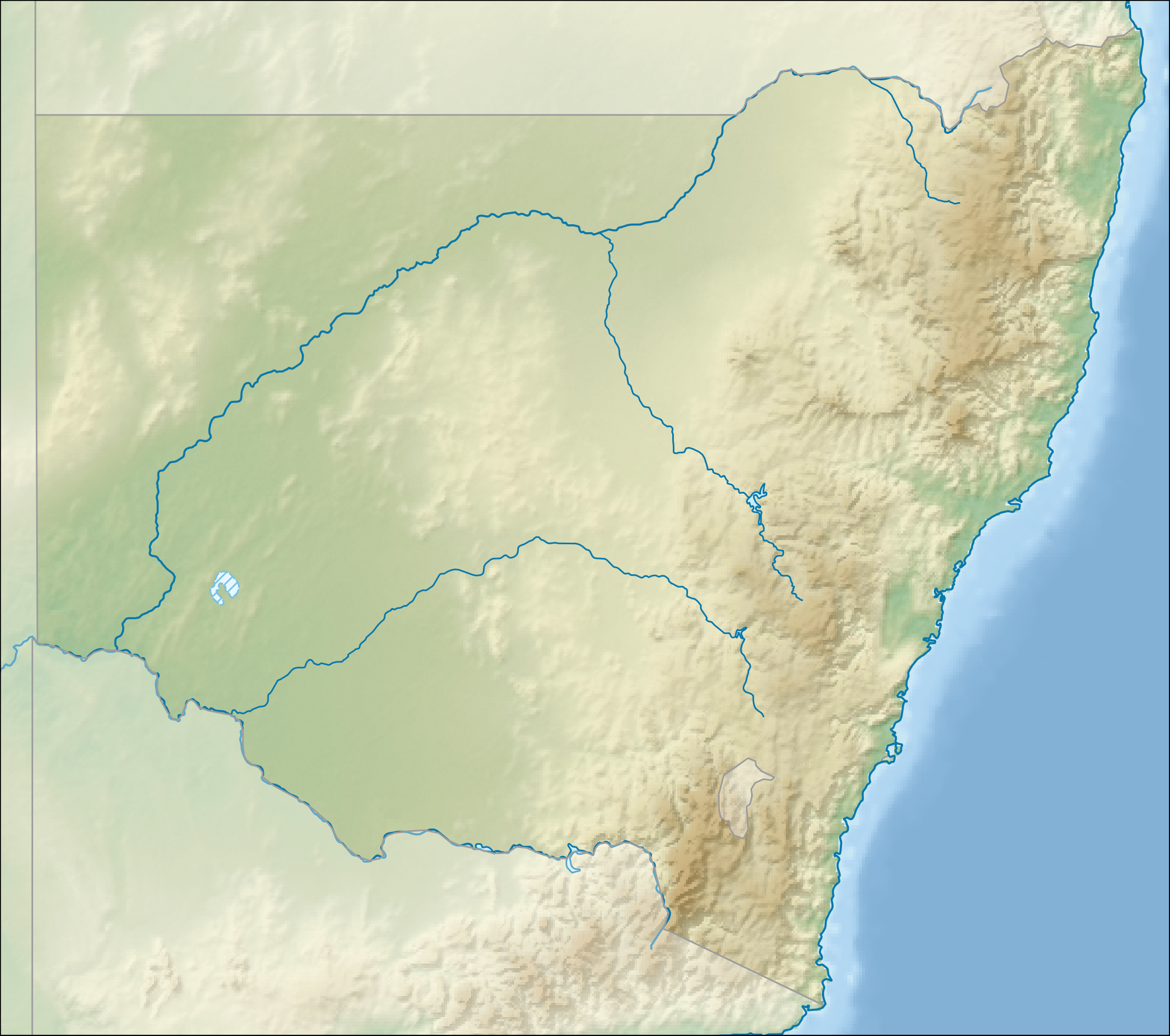 Relief location map of New South Wales, Australia Equidistant cylindrical projection, latitude of true scale 32.82° S (equivalent to equirectangular projection with N/S stretching 119 %). Geographic limits of the map: N: 27.9° S S: 37.8° S W: 140.6° E E: 153.9° E